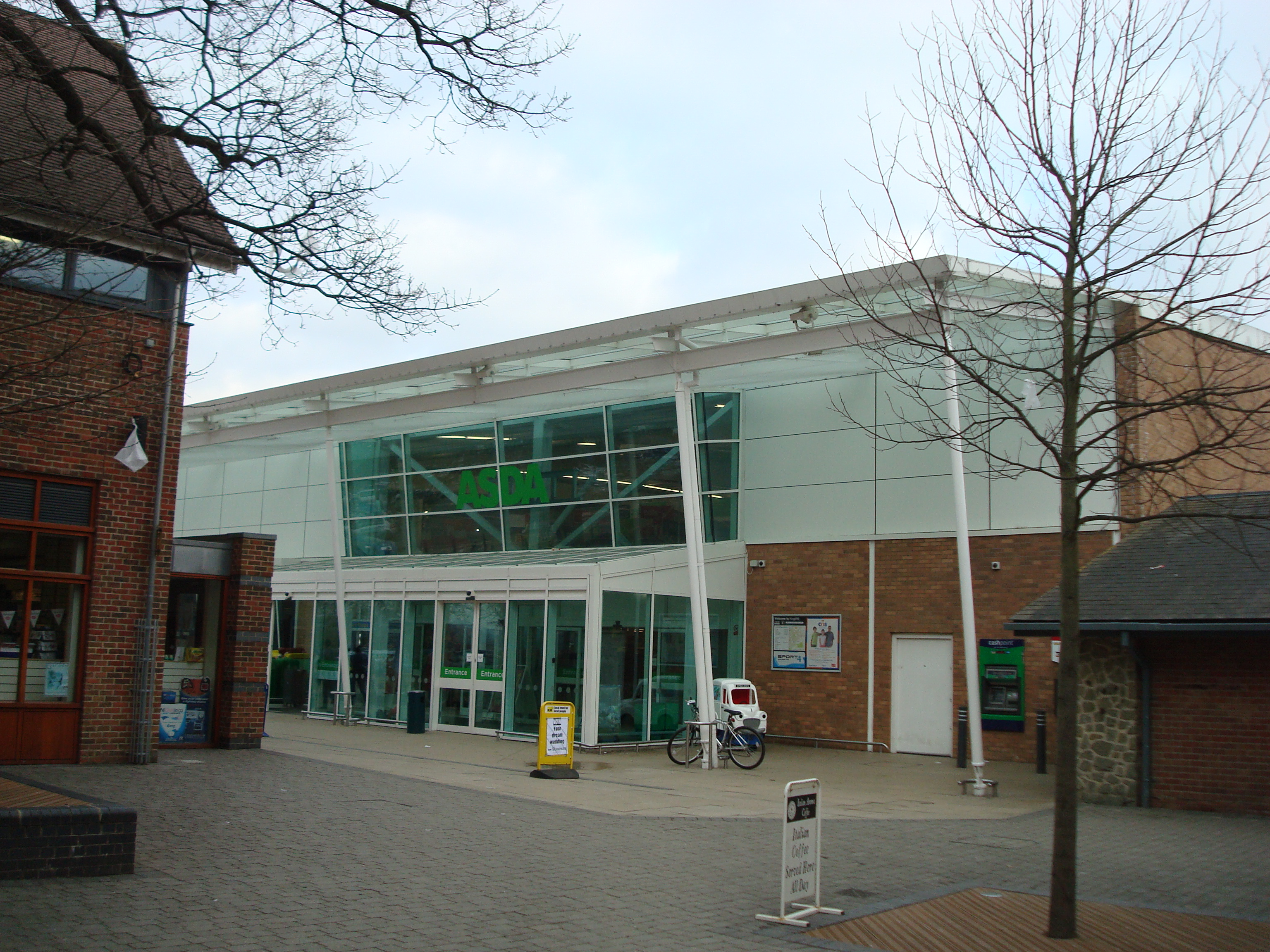 Asda, King's Hill